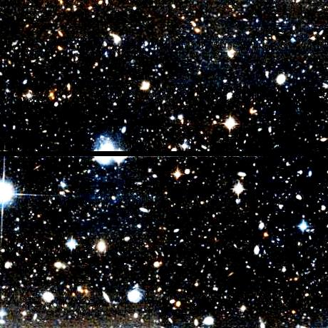 Bootes I Dwarf Galaxy - Hubble Space Telescope - Hubble Legacy Archive